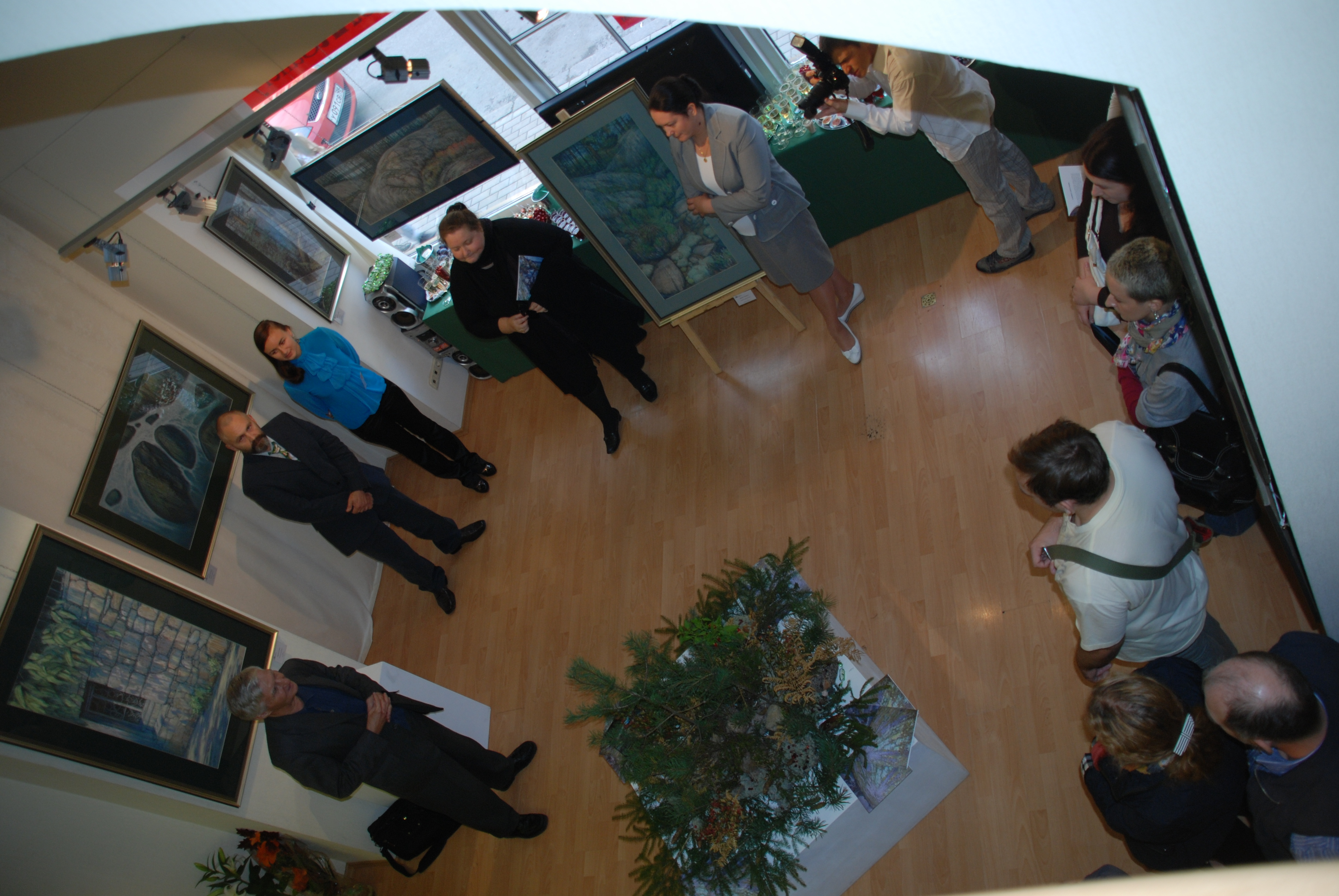 exhibition of Urij Stolyaov. StArt Gallery. 2010